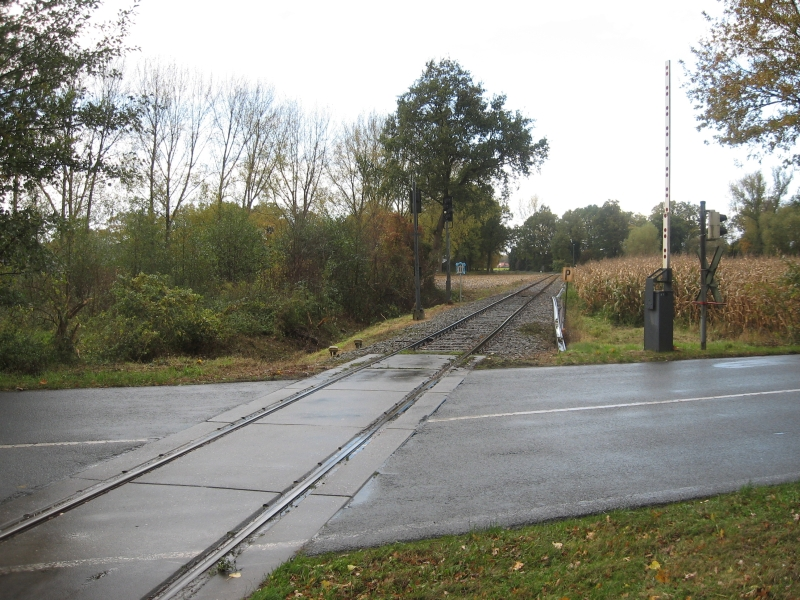 The Bentheimer Eisenbahn near Nordhorn, Lower Saxony, Germany